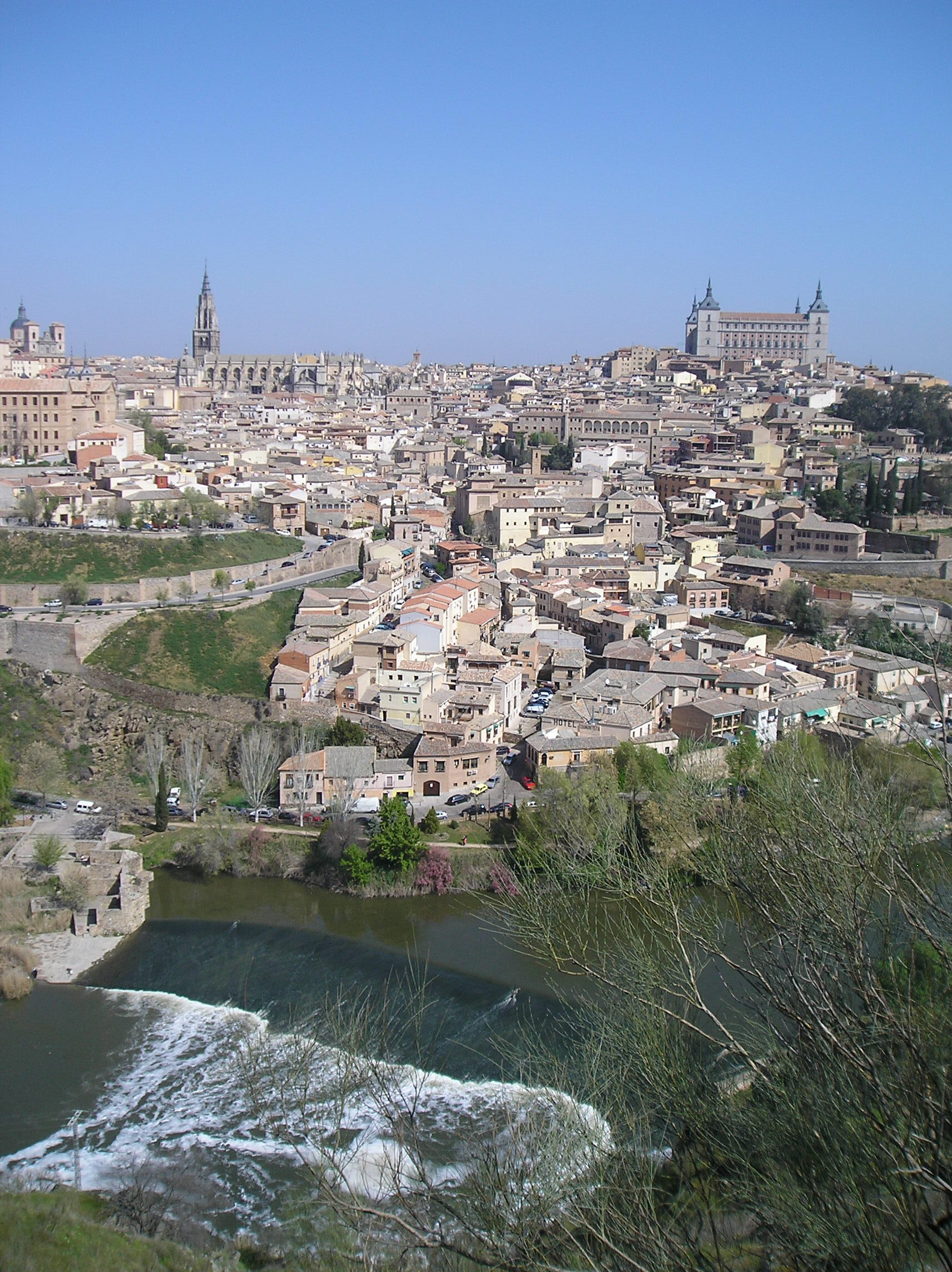 The old city of Toledo in Spain as viewed from across the Tagus River. April 2007.